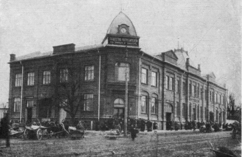 The Singer Company consumers' society building in Podolsk, Russia 1913. Singer Sewing Machines factory, established in 1900, was a major employer in Podolsk.